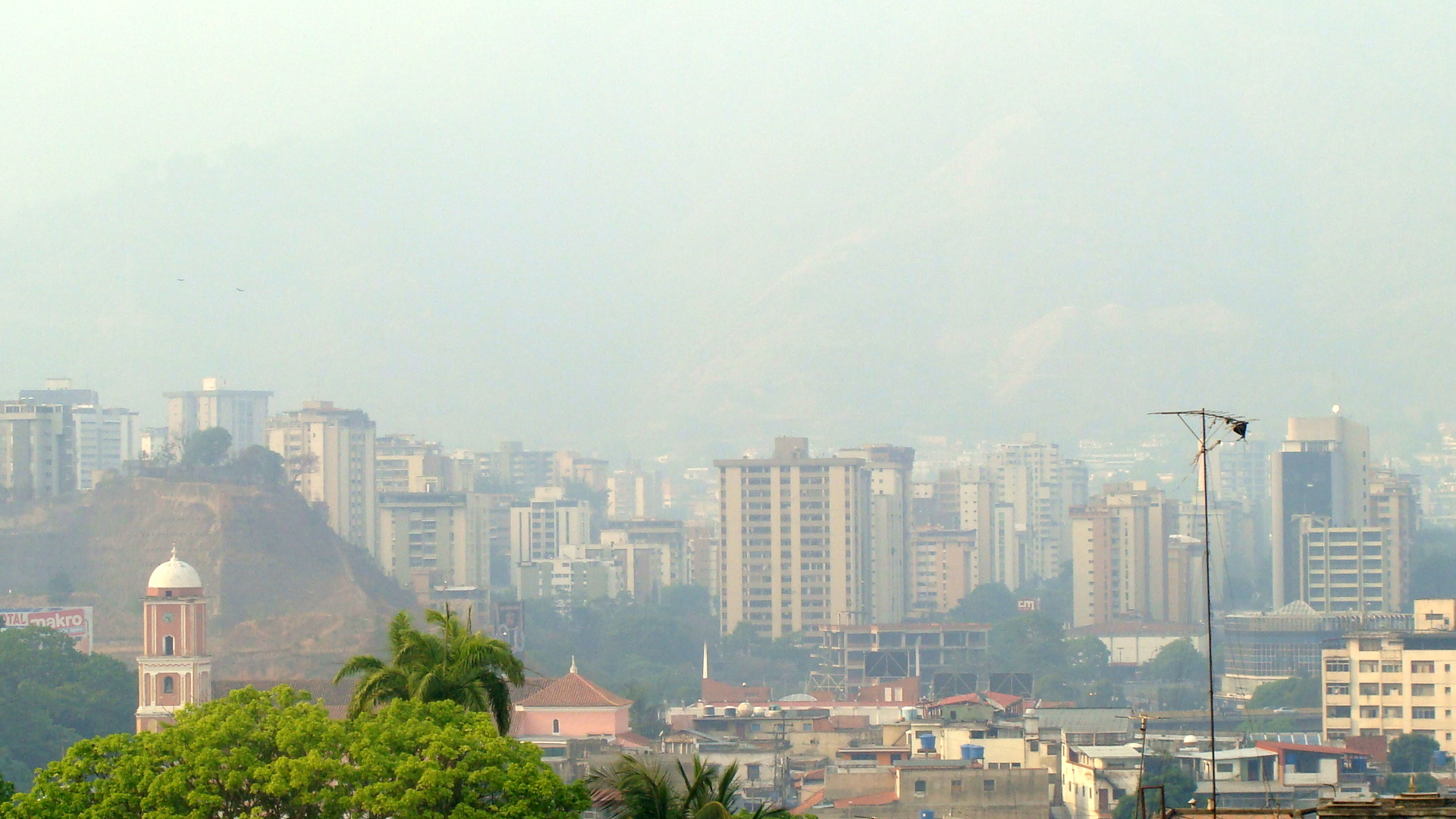 Smog over Caracas (Venezuela)